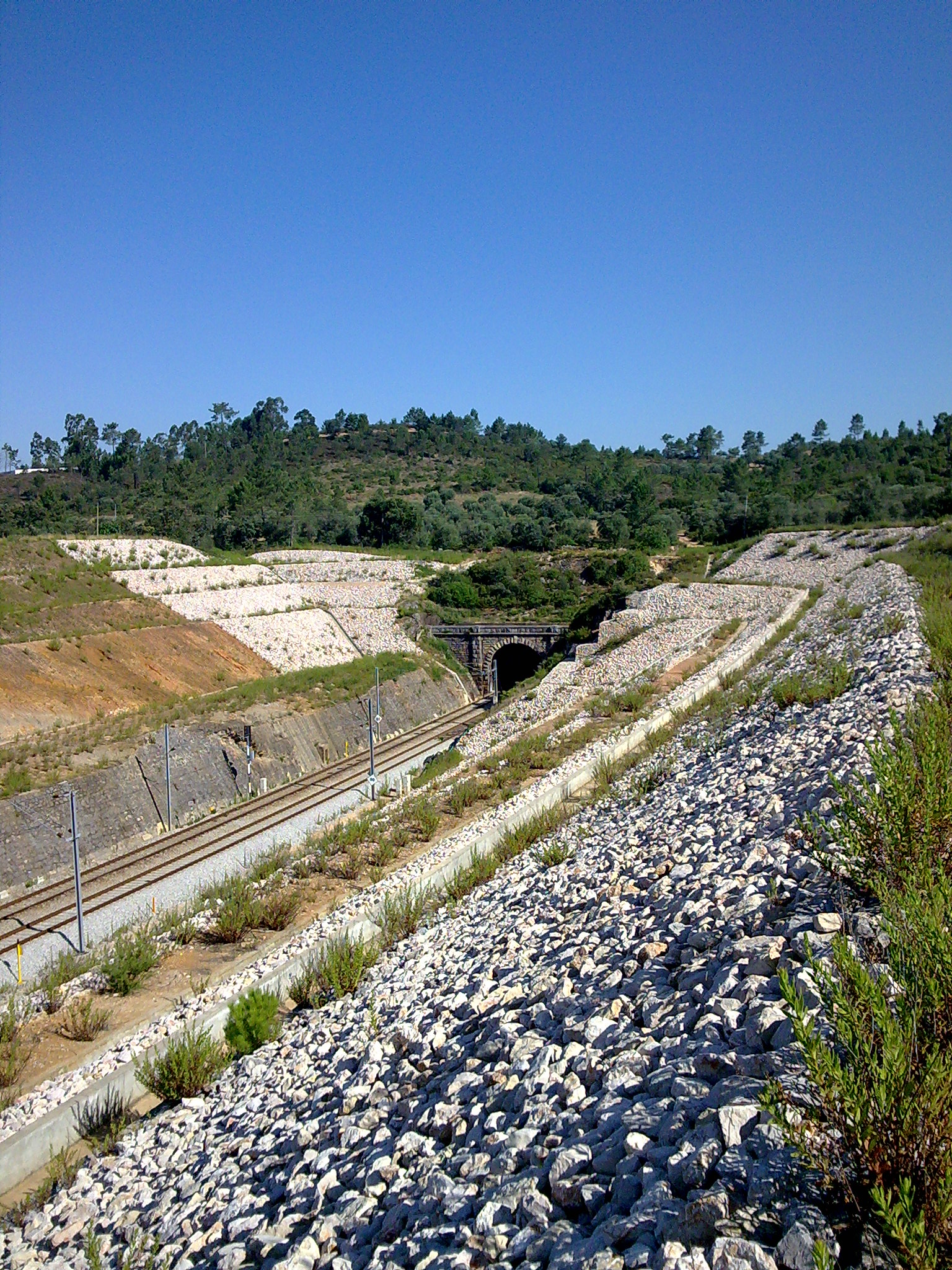 Chão de Maçãs rail tunnel, Sabacheira, Tomar,south side